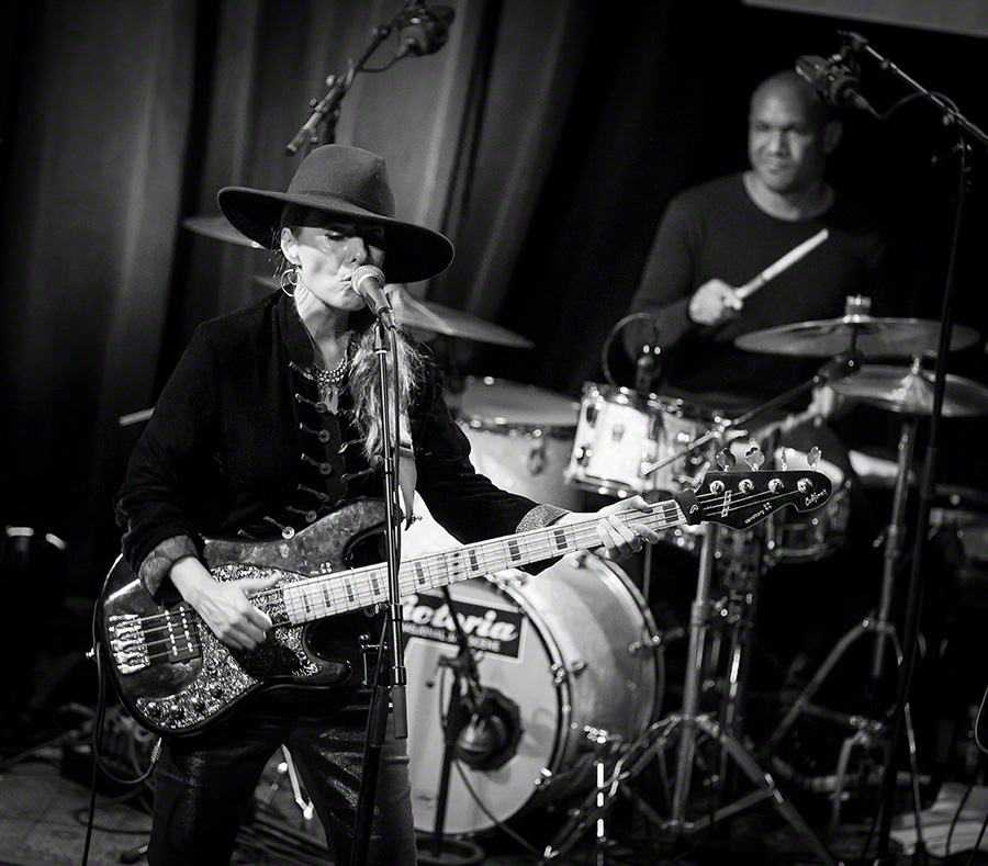 Ida Nielsen at the stage of Nasjonal Jazzscene Victoria. The concert was part of the Oslo Jazz Festival in Norway and took place on 20. August 2016. Lineup:Ida Nielsen (bass)Sofia Hejslet (keyboard)Mika Vandborg (guitar)Yassin Daulne (Disc jockey)Patrick Dorcean (drums)André Martin Hadland (vocal)